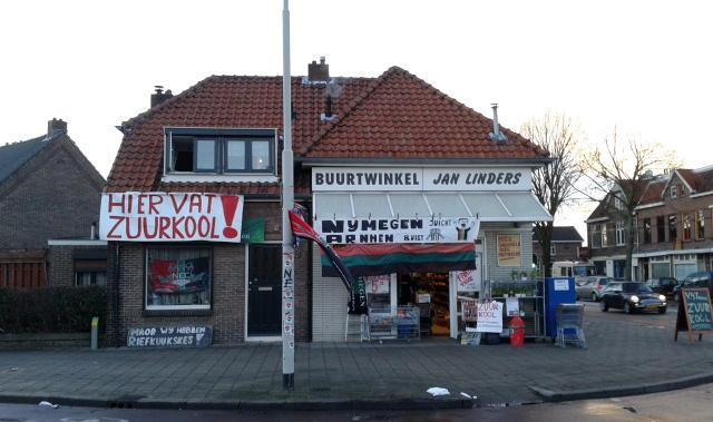 Characteristic neighborhood shop "Jan Linders" in the Nijmegen hood het Waterkwartier ("the water quarter").